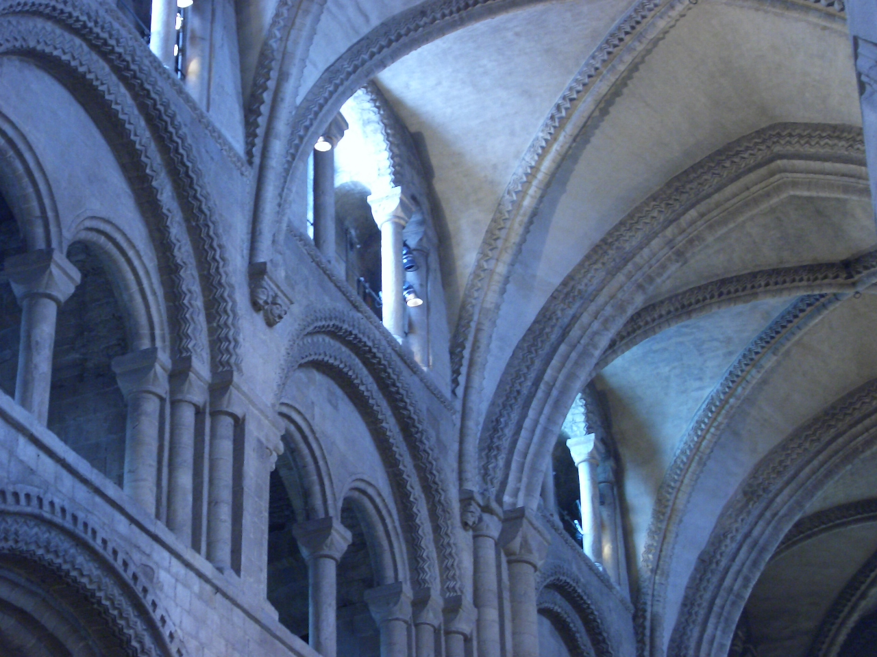 Durham Cathedral: triforium and clerestory. On the door of Durham Cathedral a notice says no digital photography.